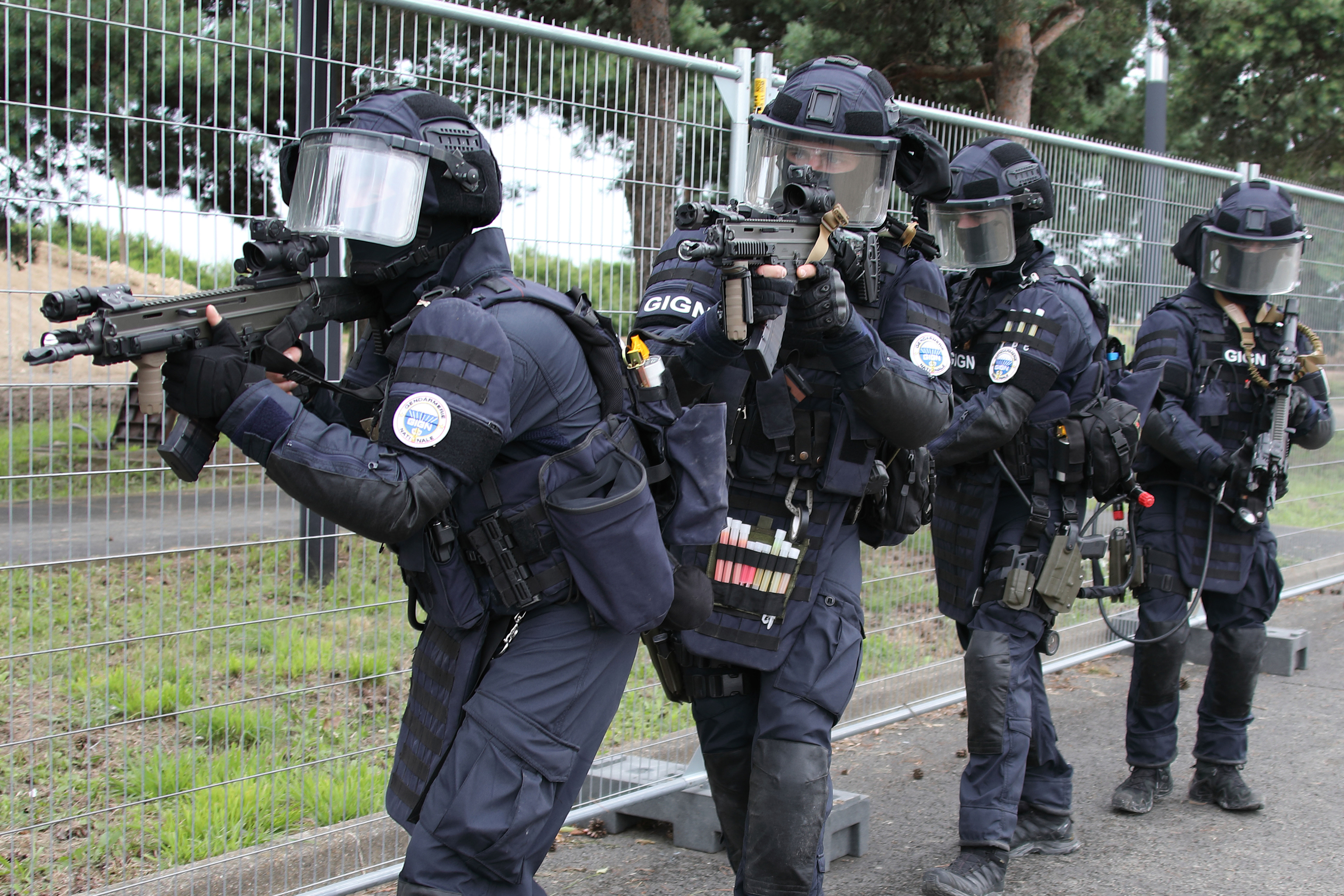 GIGN operators during a demo-1. June 2018